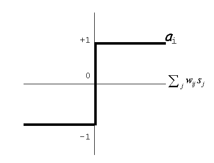 Graphical representation of the activation function of Hopfield neural network